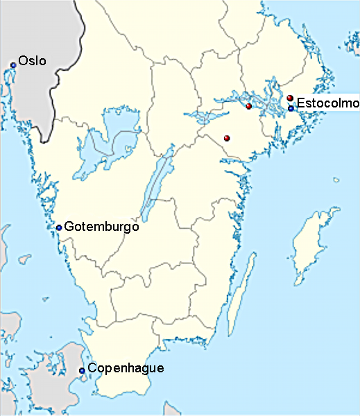 Position of Italy Runestones in southern Sweden (labels in Spanish).